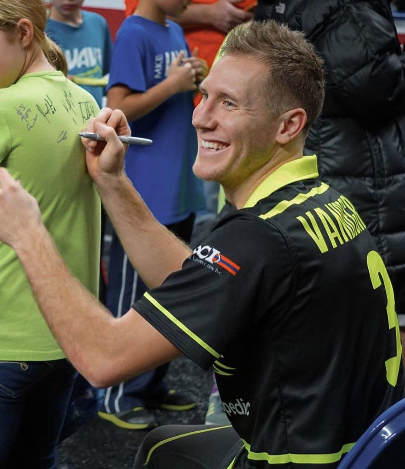 Chad Vandegriffe, a defender for Milwaukee Wave of Major Arena Soccer League, signing the back of a fan's shirt.